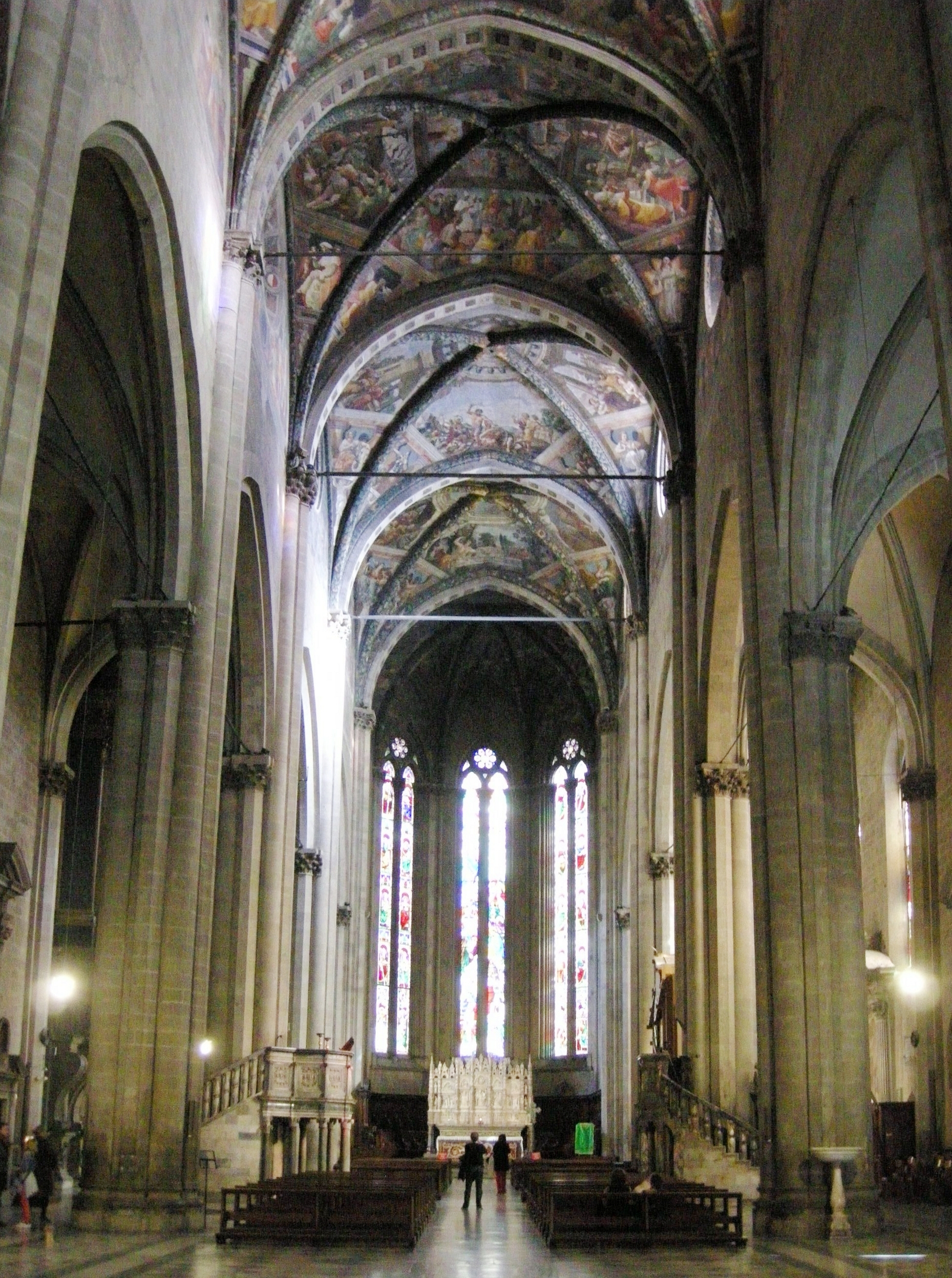 Intra Ecclesiam Cathedralem Aretinam